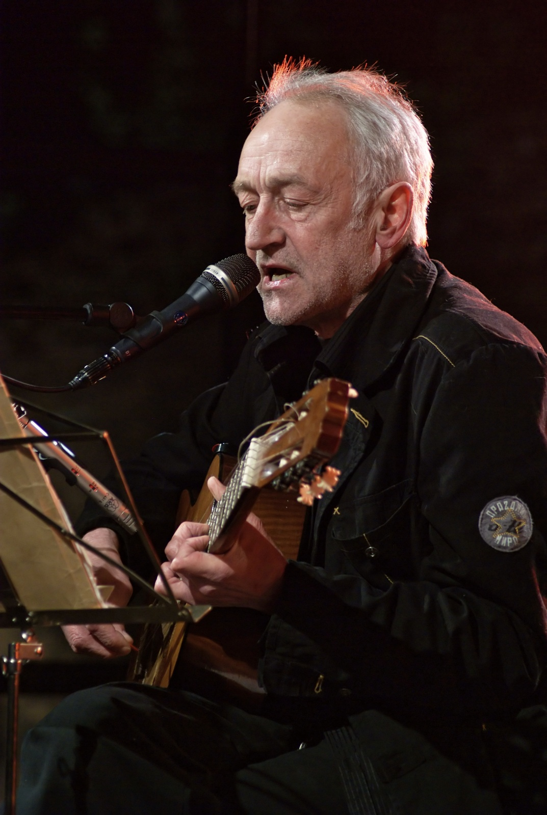 Przemyslaw Gintrowski